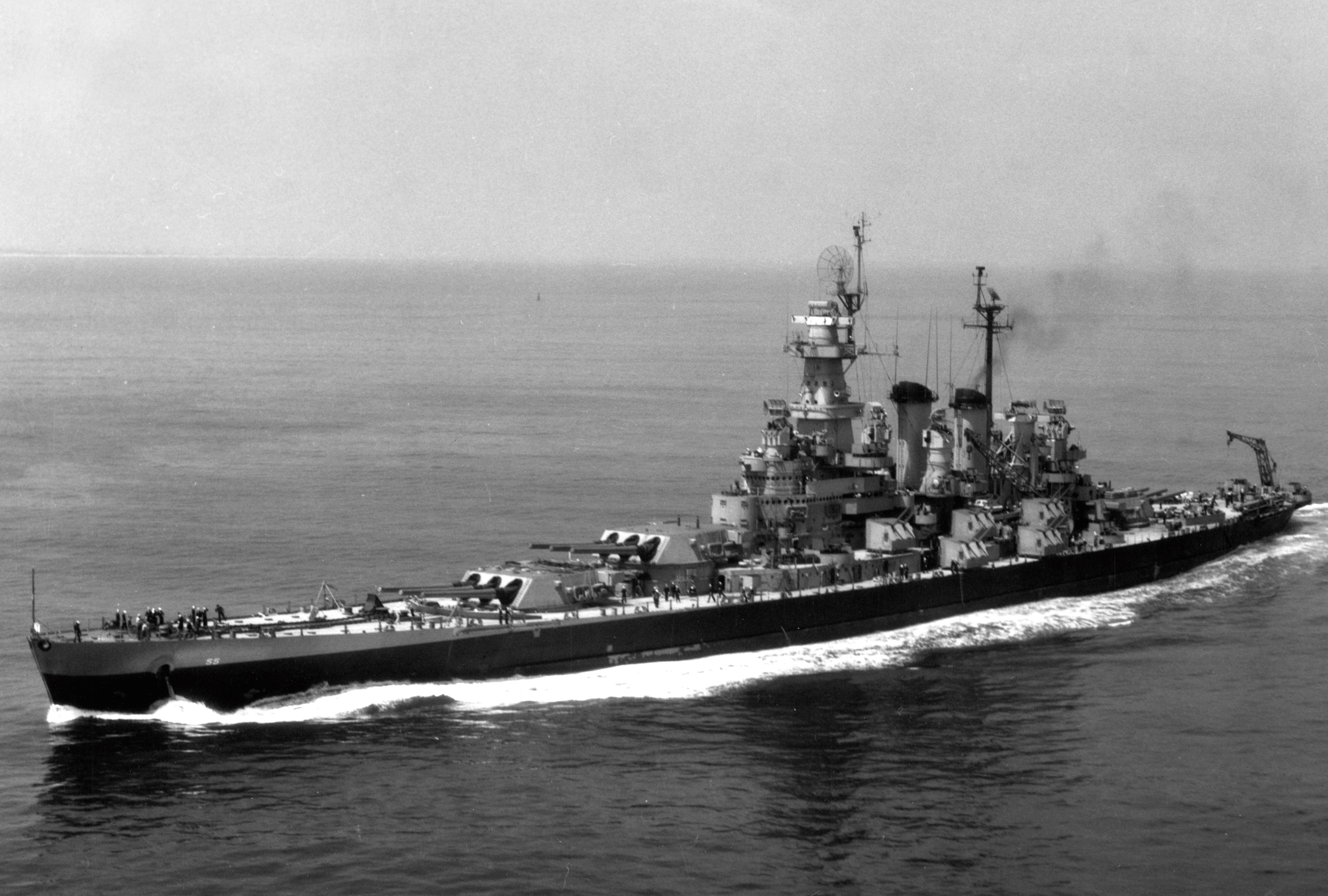 The U.S. Navy battleship USS North Carolina (BB-55) at sea off New York City (USA), 3 June 1946. Photographed from a Naval Air Station, New York, aircraft.